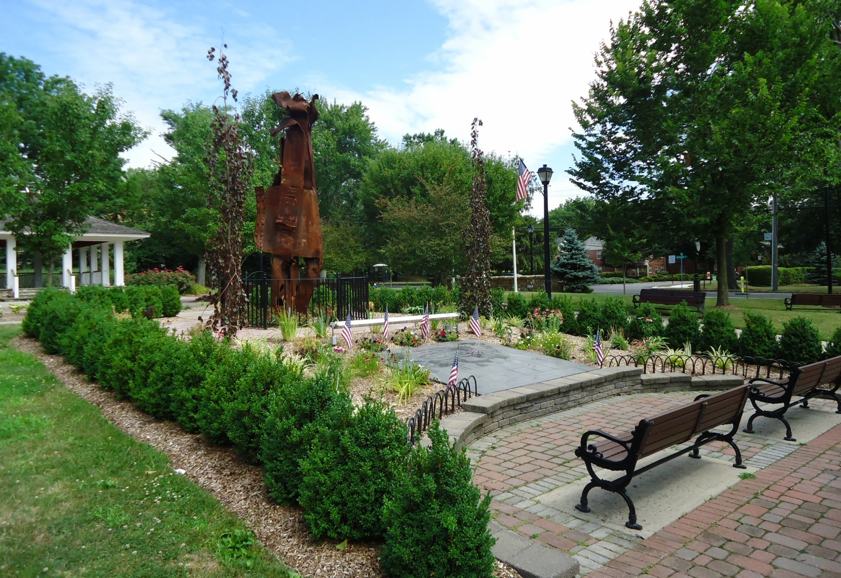 Memorial park with benches, art, pergola. New Providence, New Jersey, is a borough in Union County and about 40 minutes west of Manhattan.